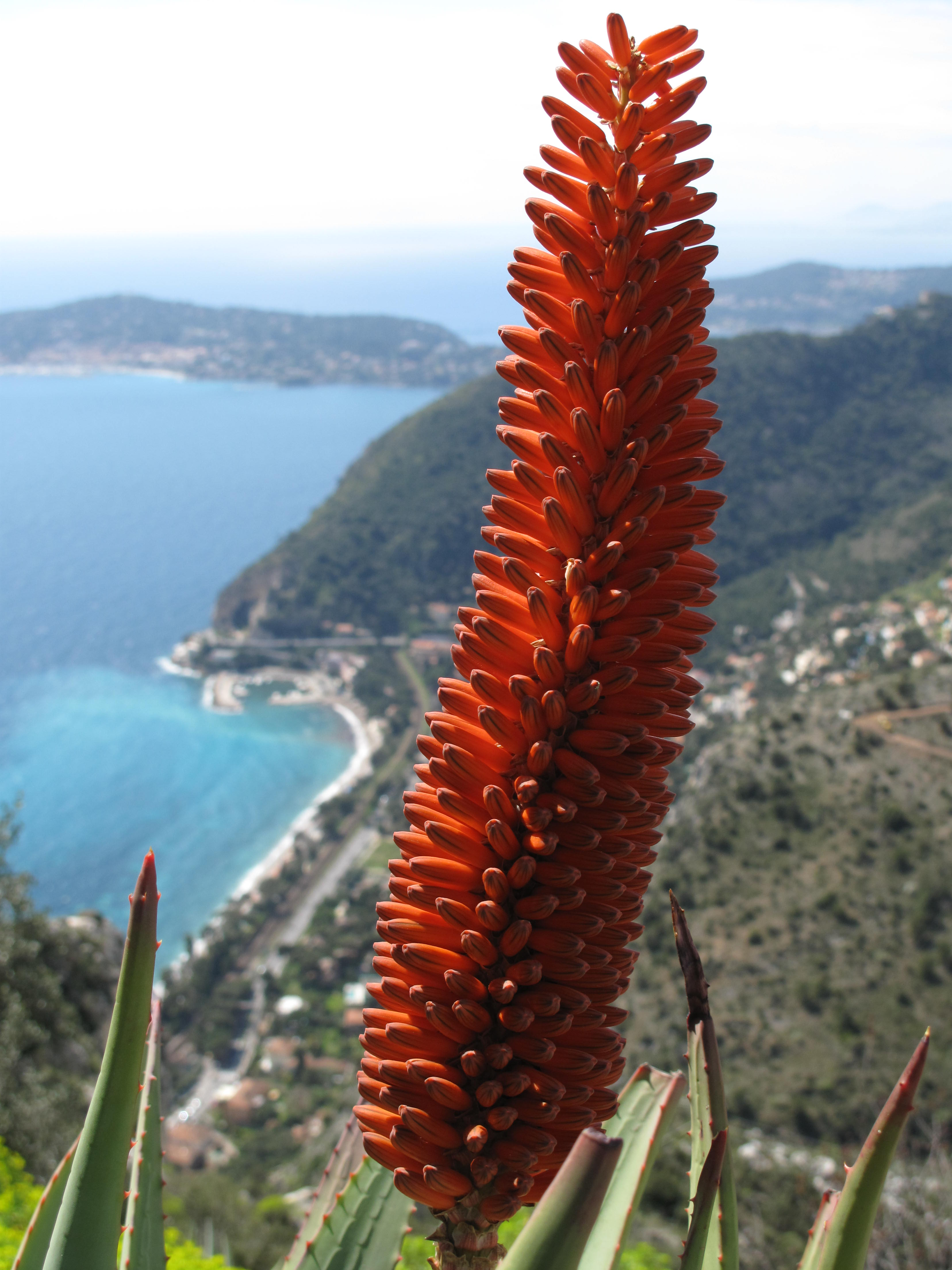 Aloes arborescens in the botanical garden of Eze (France) : detail of the flower